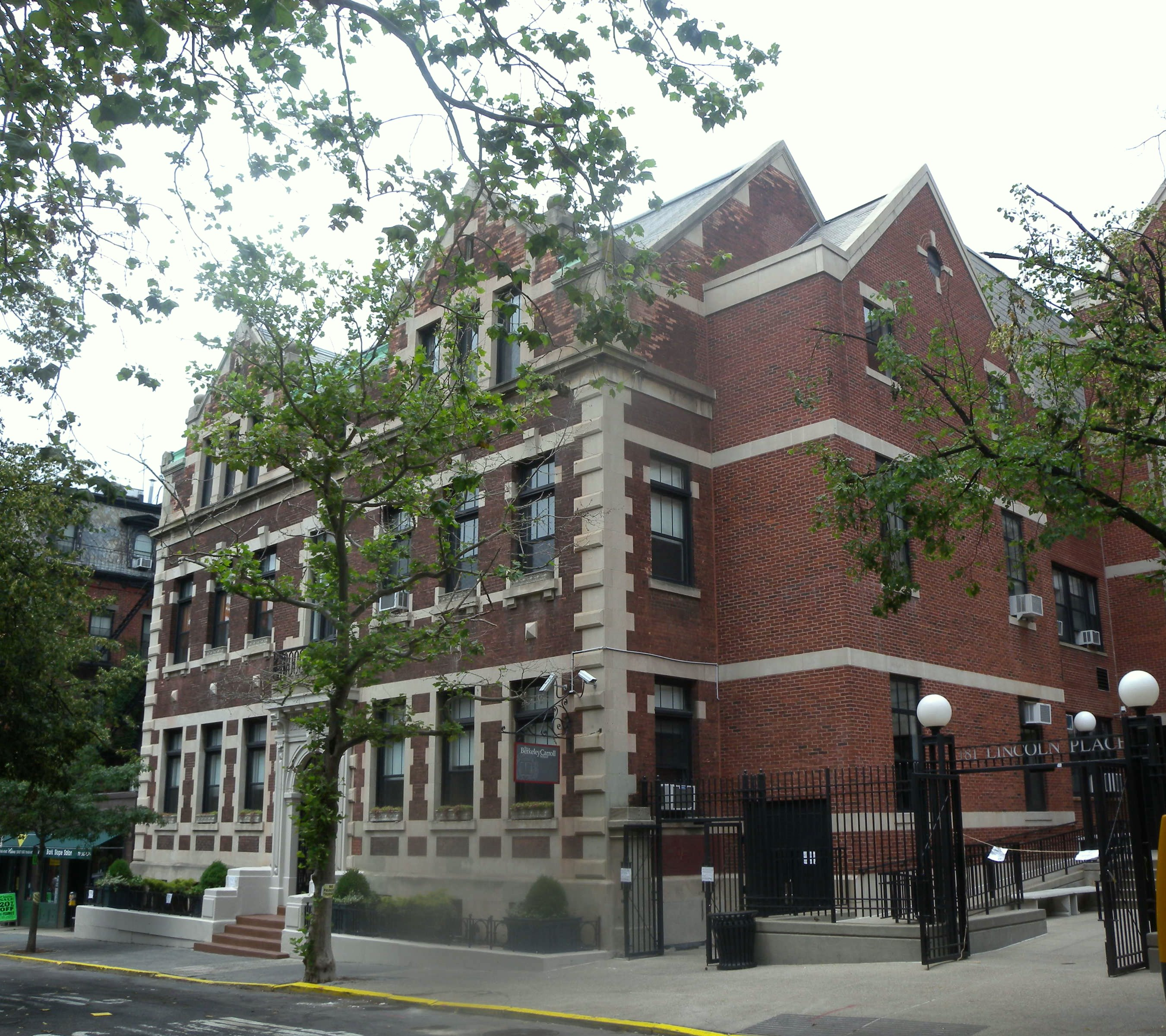 Looking north across Lincoln Place at Berkeley Carroll School on a cloudy afternoon.